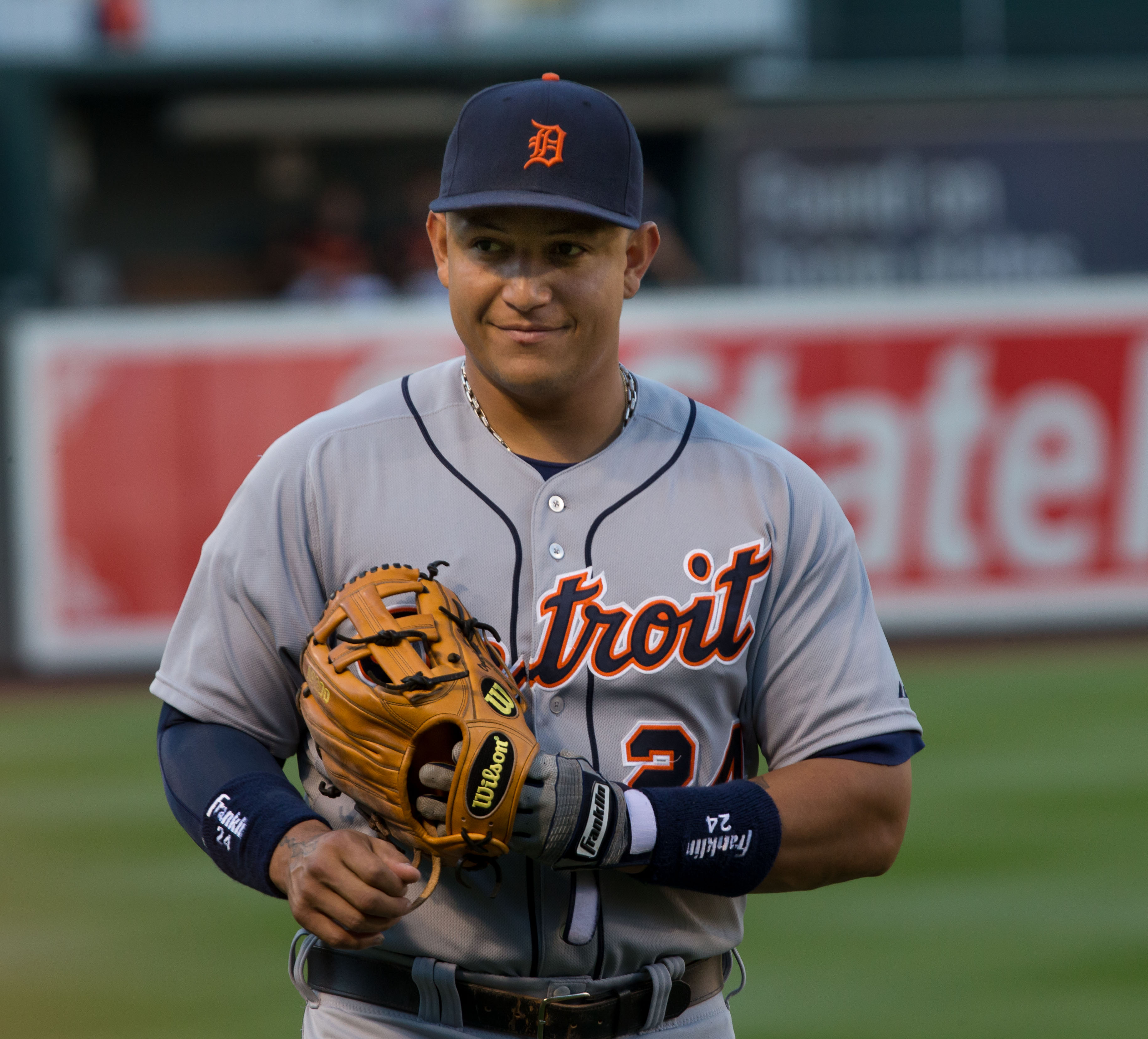 Detroit Tigers at Baltimore Orioles May 31, 2013